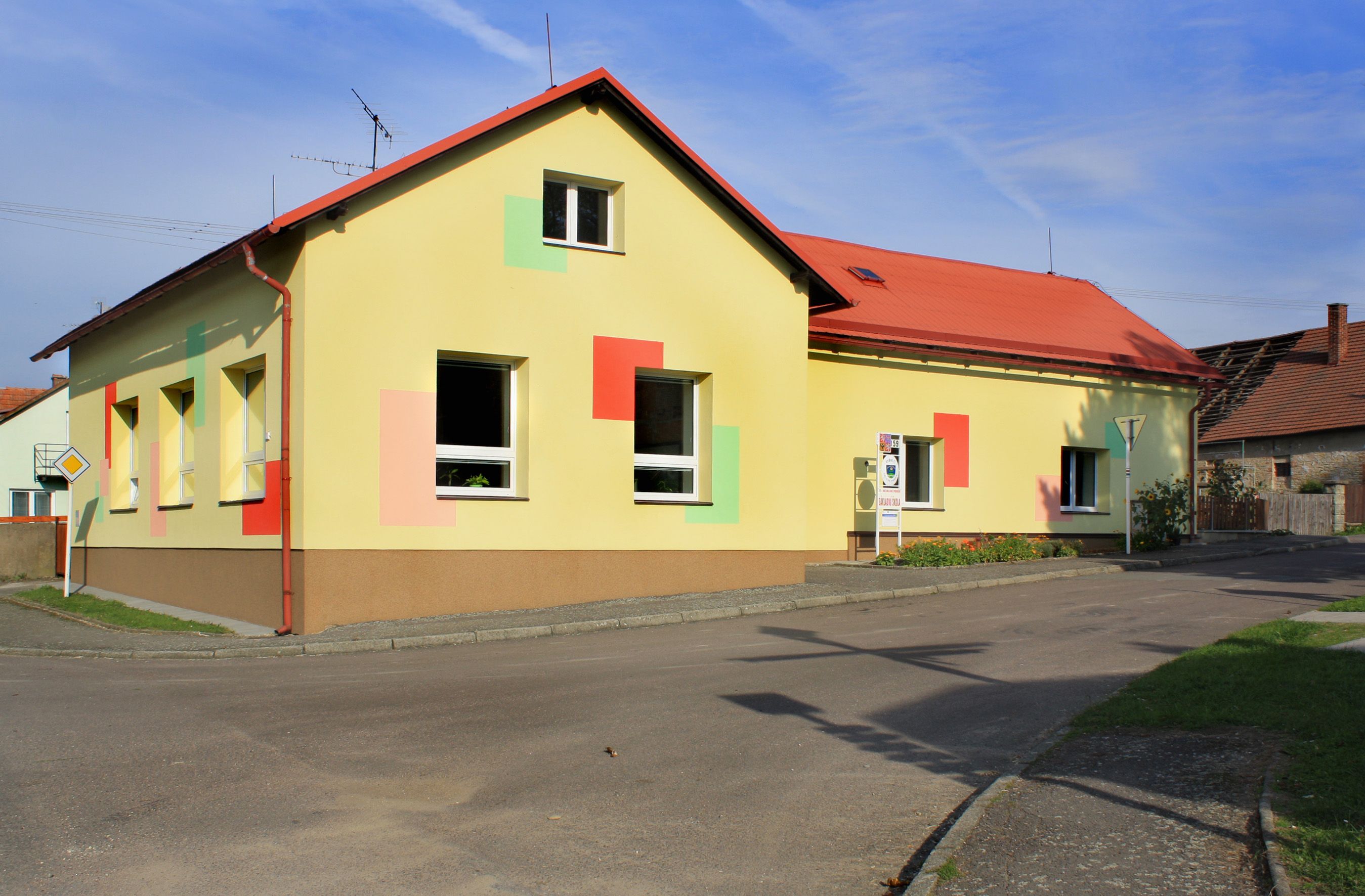 Elementary school in Říčky, part of Orlické Podhůří, Czech Republic